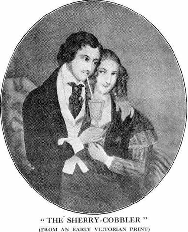 Pintura época victoriana pareja con un Sherry Cobbler